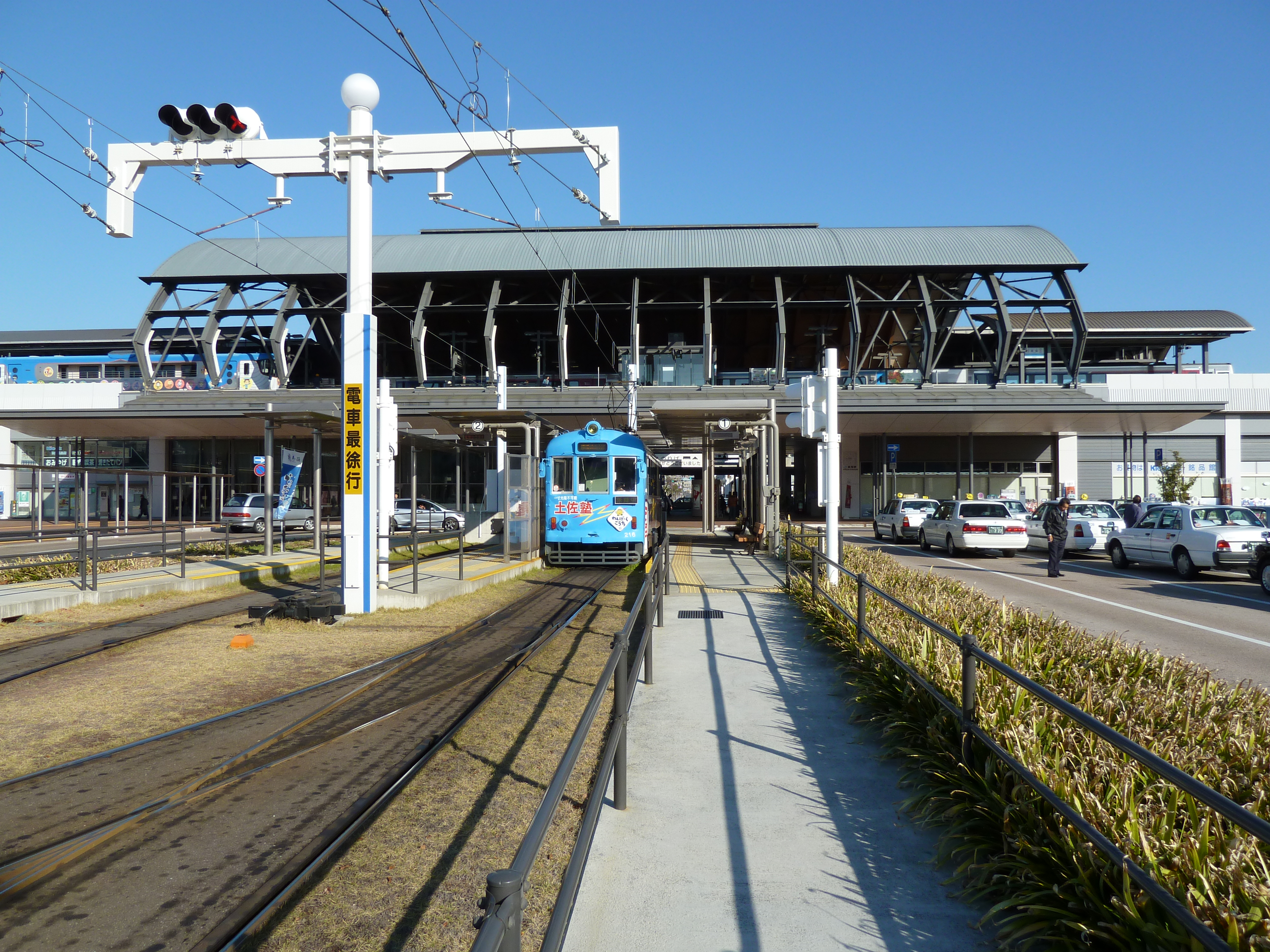 高知駅南口にある高知駅前駅